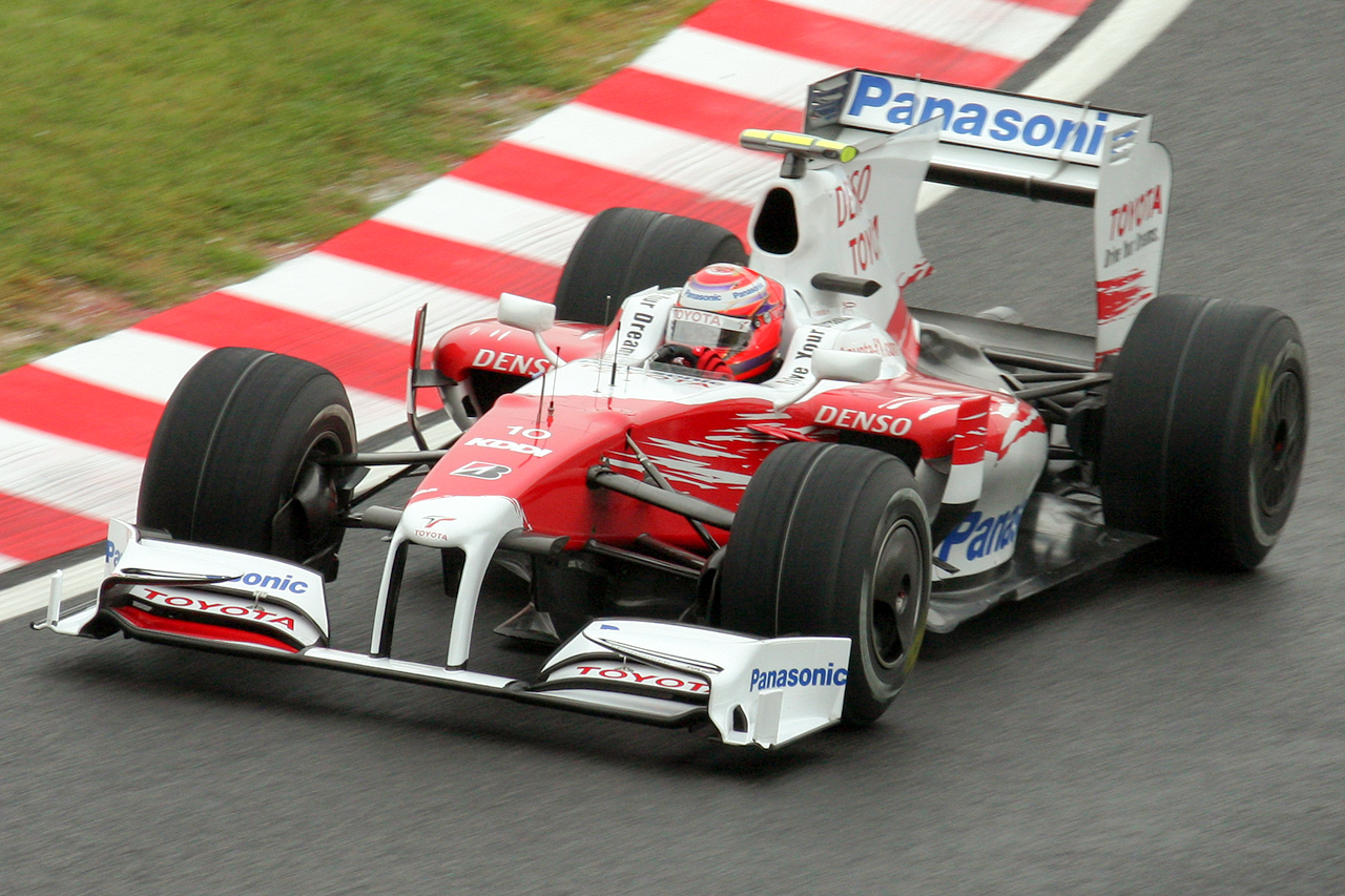 Formula One 2009 Rd.15 Japanese GP: Kamui Kobayashi (Toyota) running in Friday 1st Free Practice session at the 2009 Japanese Grand Prix, instead of sick Timo Glock.